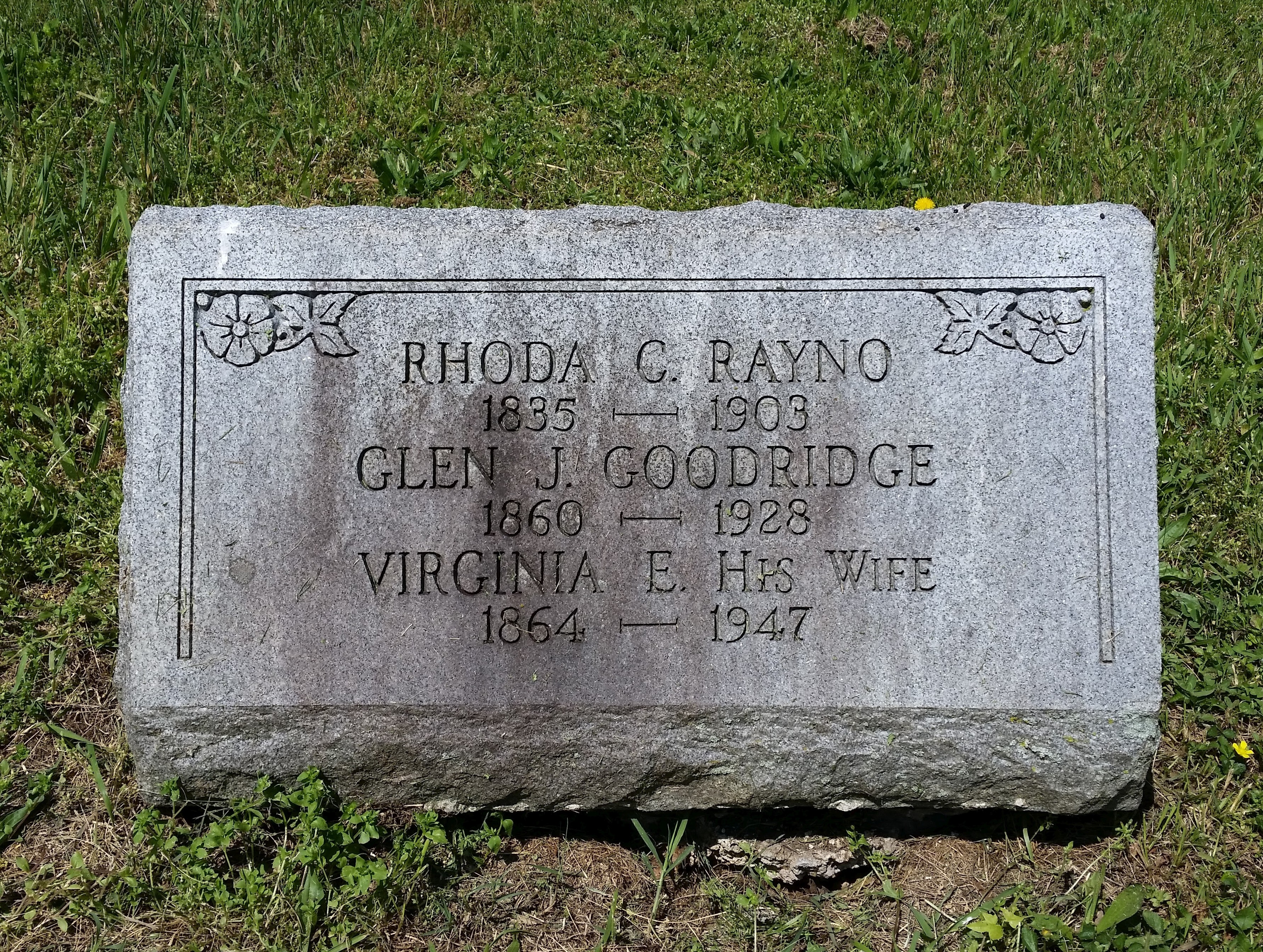 This stone marks the final resting place of Glenalvin J Goodridge, Jr. (1860-1928), his wife Virginia E. (Brown) Goodridge (1864-1947), and his mother Rhoda, who had remarried and was laid to rest as Rhoda C. Rayno. The marker was erected in Lebanon Cemetery on N. George St. in York, Pennsylvania. Glen was the only surviving son of early York photographer Glenalvin J. Goodridge, and the grandson of abolitionists William C. and Emily (Evalina Wallace) Goodridge. Glen's obituary indicated that he died at 7:20 PM on April 2, 1928, at the age of 67, following an illness and complications of disease. He was a barber at the time, and had been a member of Faith Presbyterian Church as well as a charter member of the local colored lodge of Odd Fellows, the Hand-in-hand-lodge. In addition to his wife, he was survived by a sister, Mrs. Emily J. Blay, Baltimore, and two nieces, Mrs. Irene Blay, Baltimore, and Mrs. Edna Bennet, Lawn Side, N.J. Virginia E. Goodridge died in early May, 1947 at the age of 84. She was survived by her brother, Harry W. Brown, and a number of nieces and nephews.